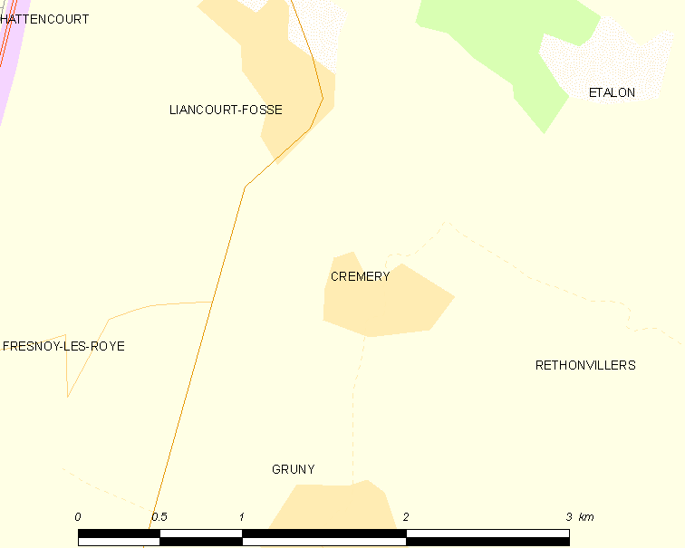 Map of French municipality Crémery